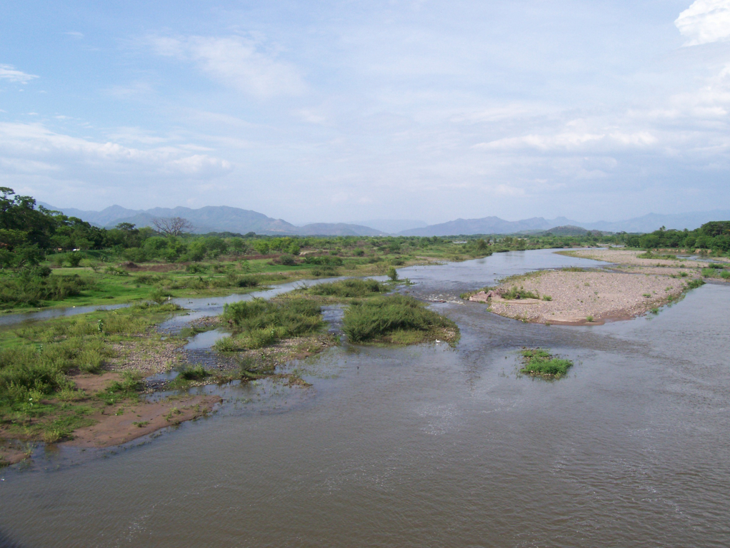 Choluteca River near the city of Choluteca. by Brandon BIgam, released in public domain